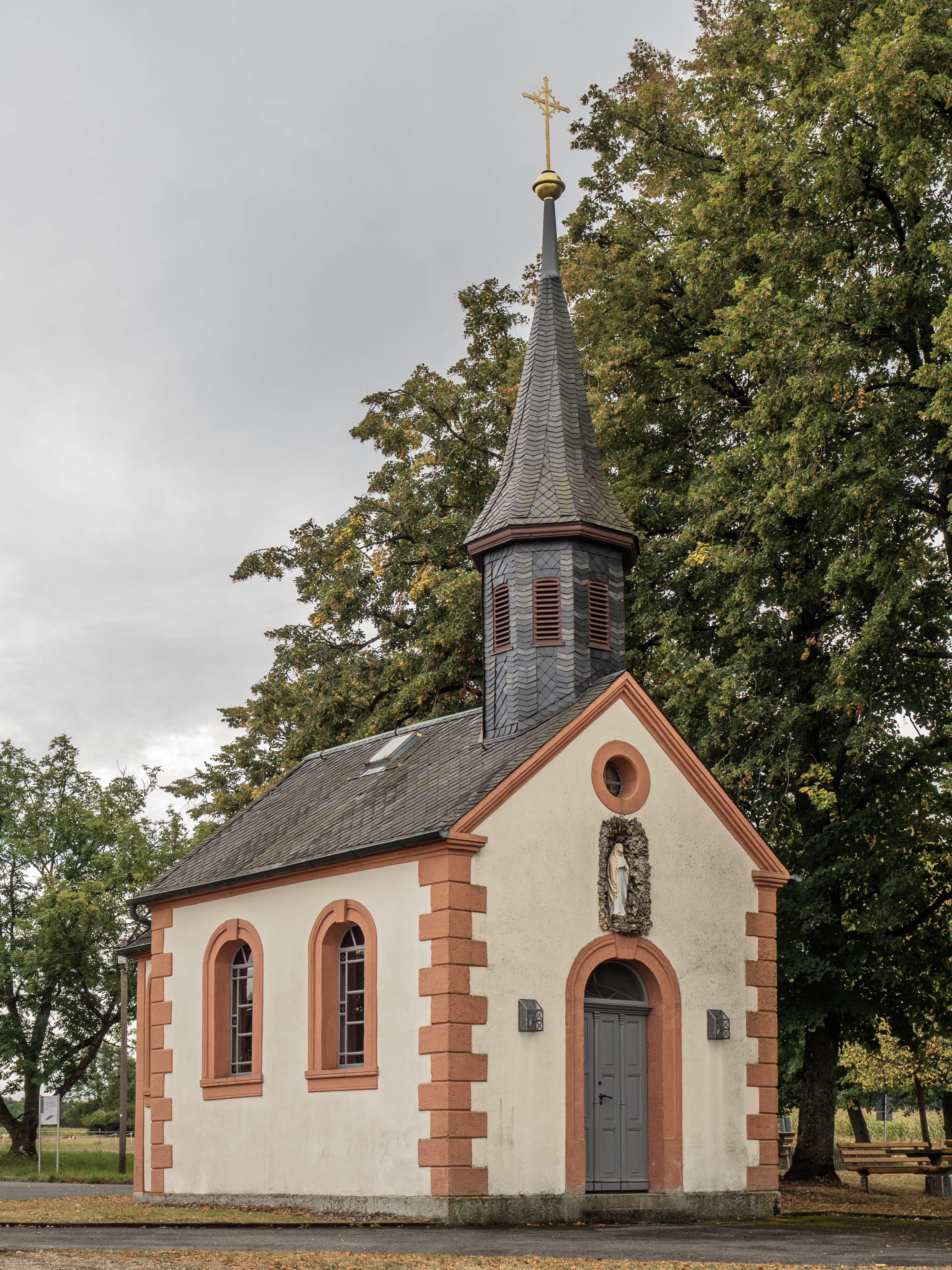 Catholic chapel Holy Family 1899